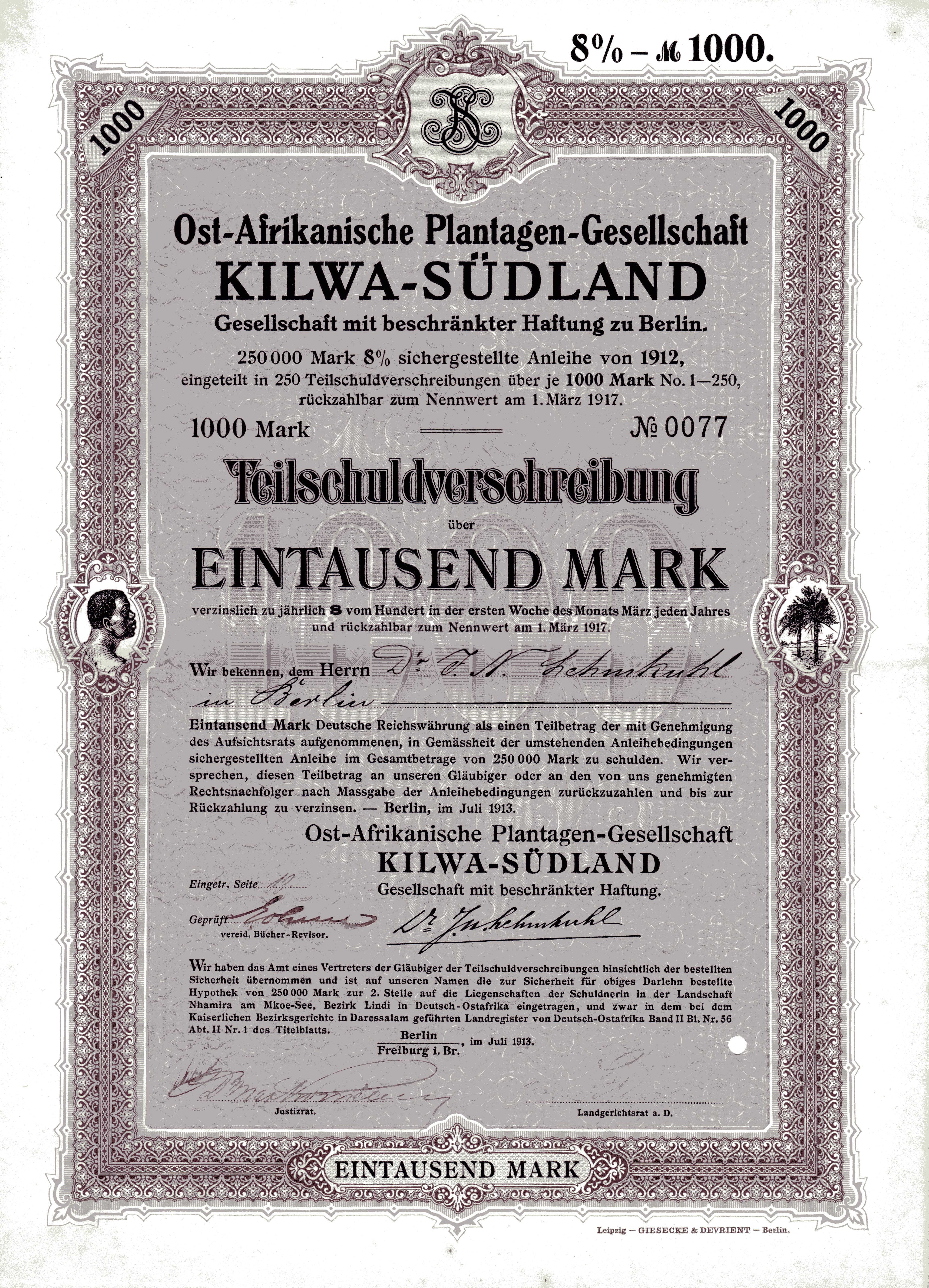 Bond of the Ost-Afrikanische Plantagen-Gesellschaft Kilwa-Südland GmbH, issued in July 1913